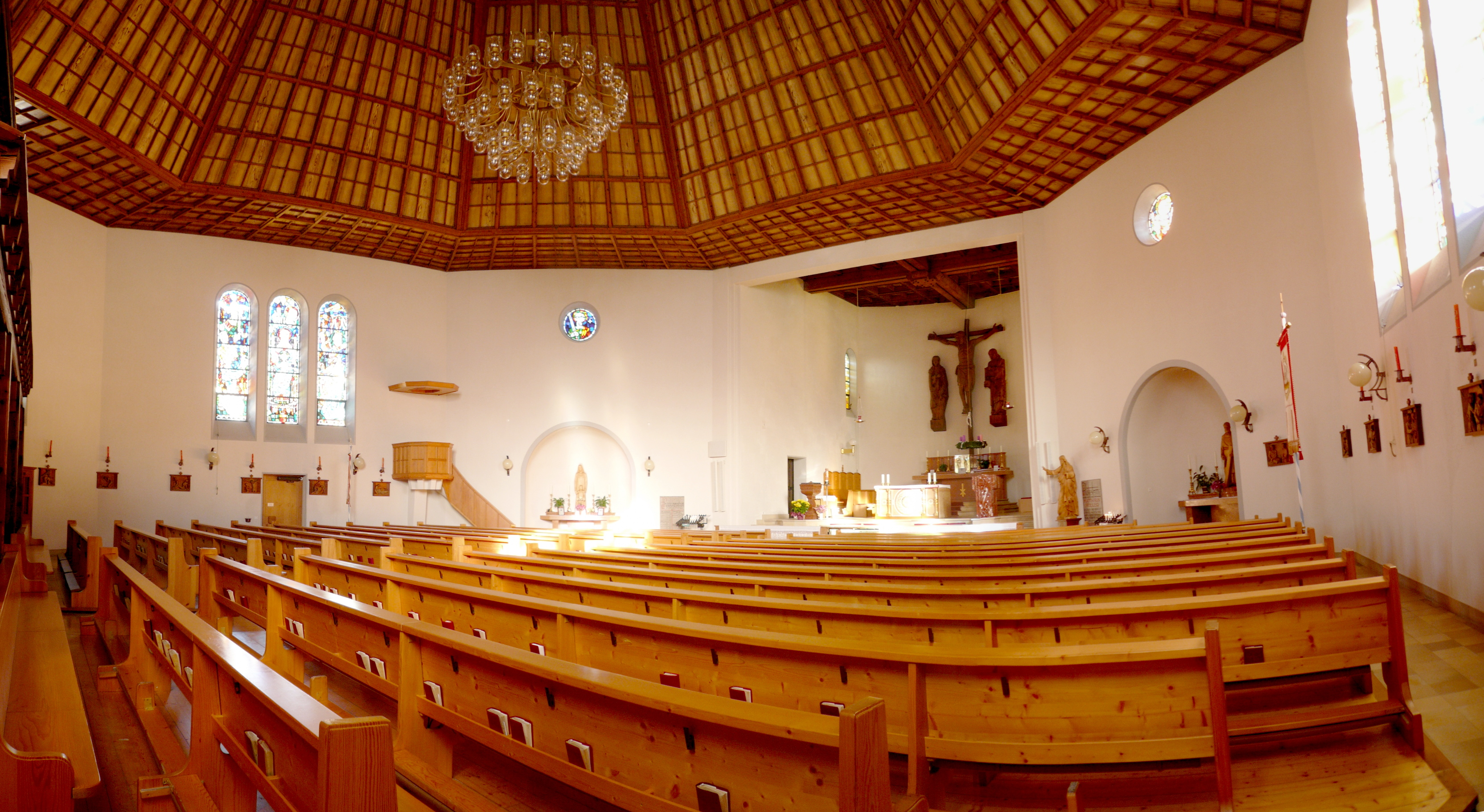 Church of Triesenberg/Liechtenstein, interior.